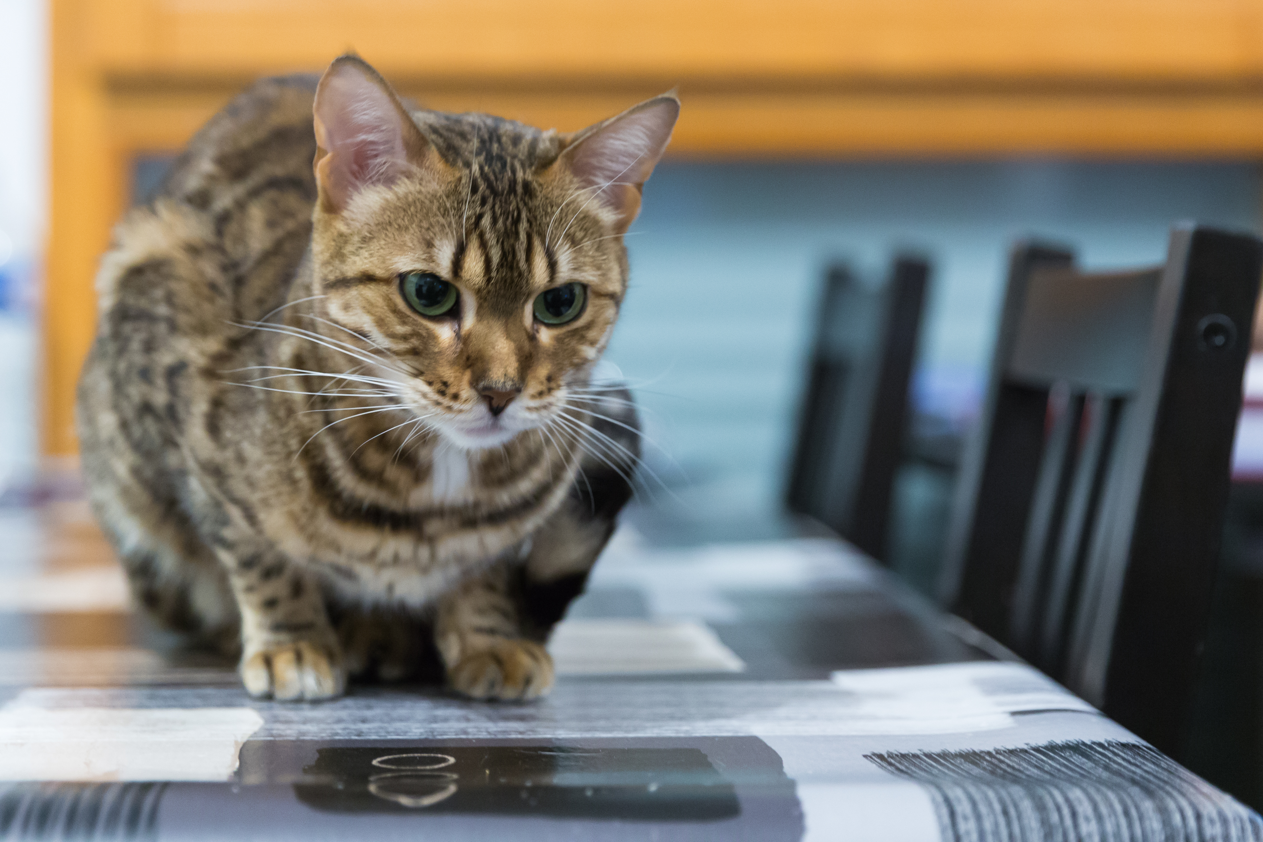 Bengal cat female, three years old.